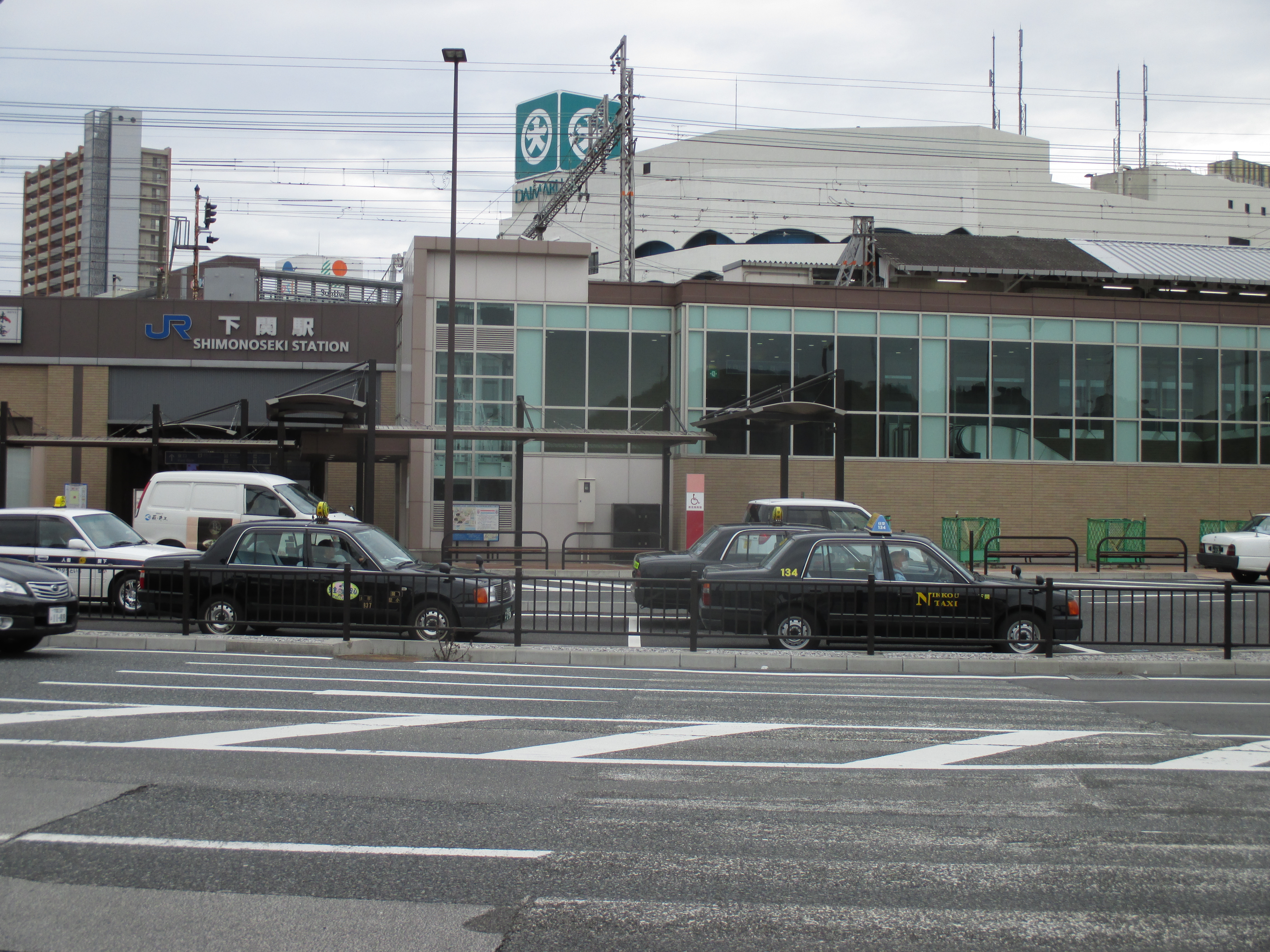 Shimonoseki station west gate